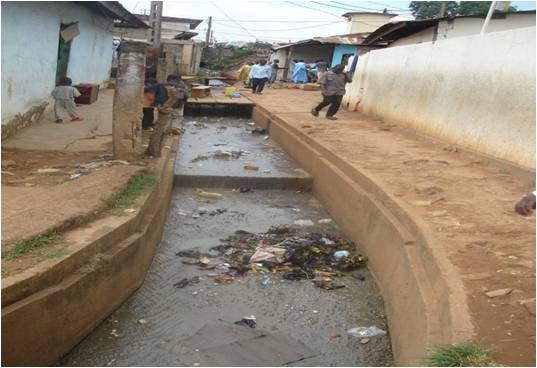 Open drain in Briqueterie, a slum of Yaounde in Cameroon. Photos taken by: Annie-Claude Pial, 2009